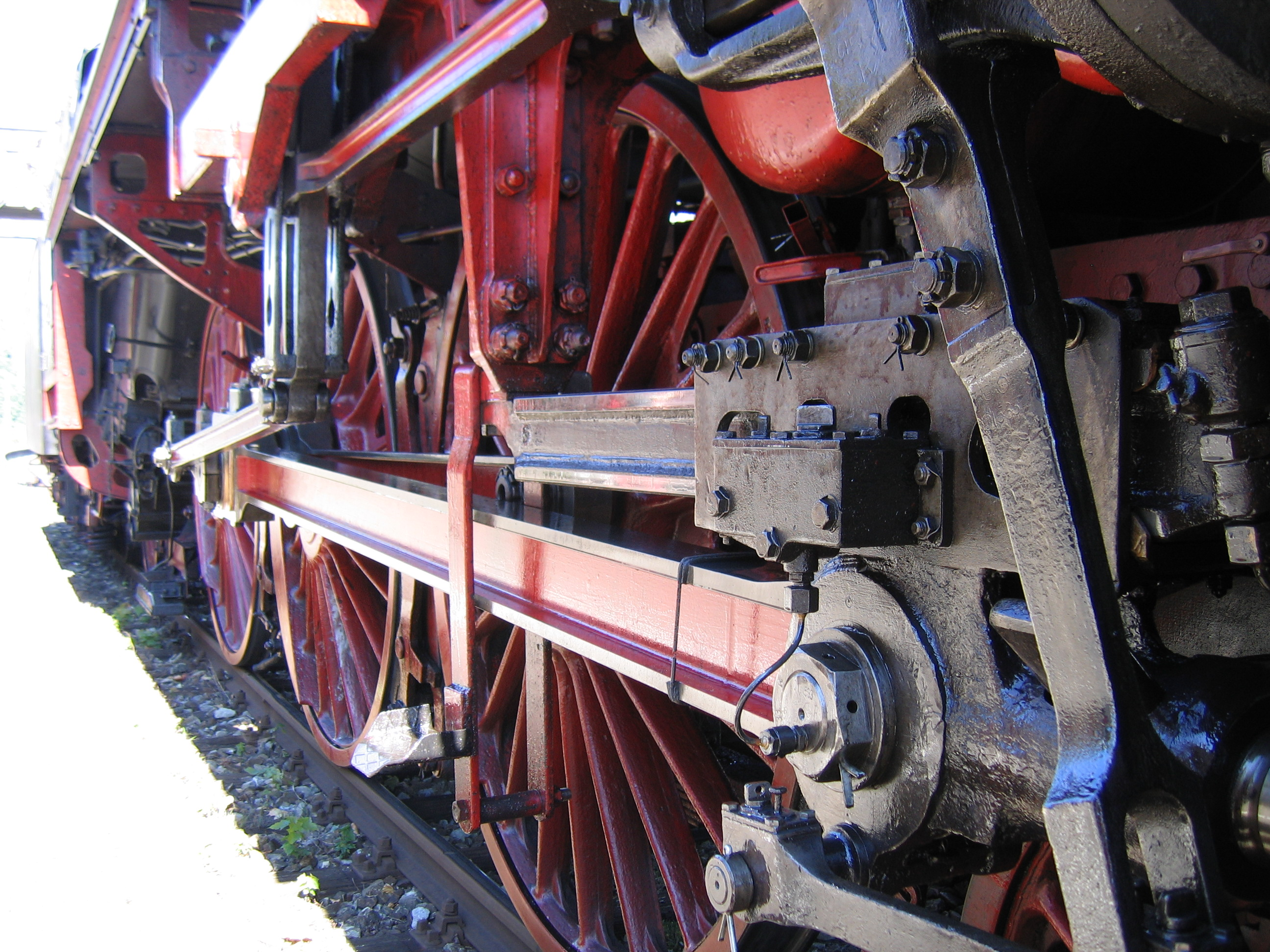 Running gear of German steam locomotive, DR Class 01.5, number 01 533, at Lindau station.